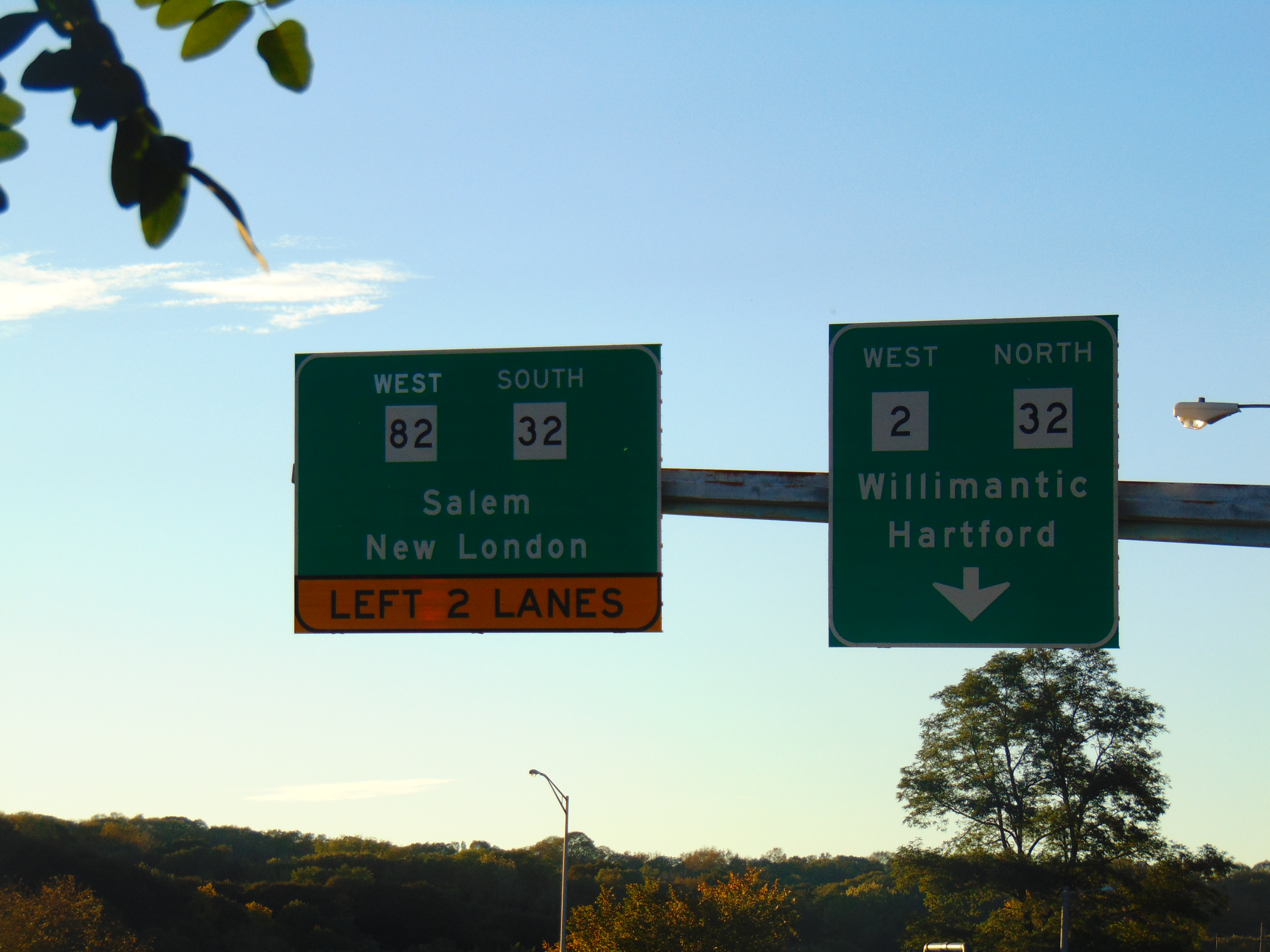 The CT 82, CT 2, and CT 32 intersection in Downtown Norwich, Connecticut.